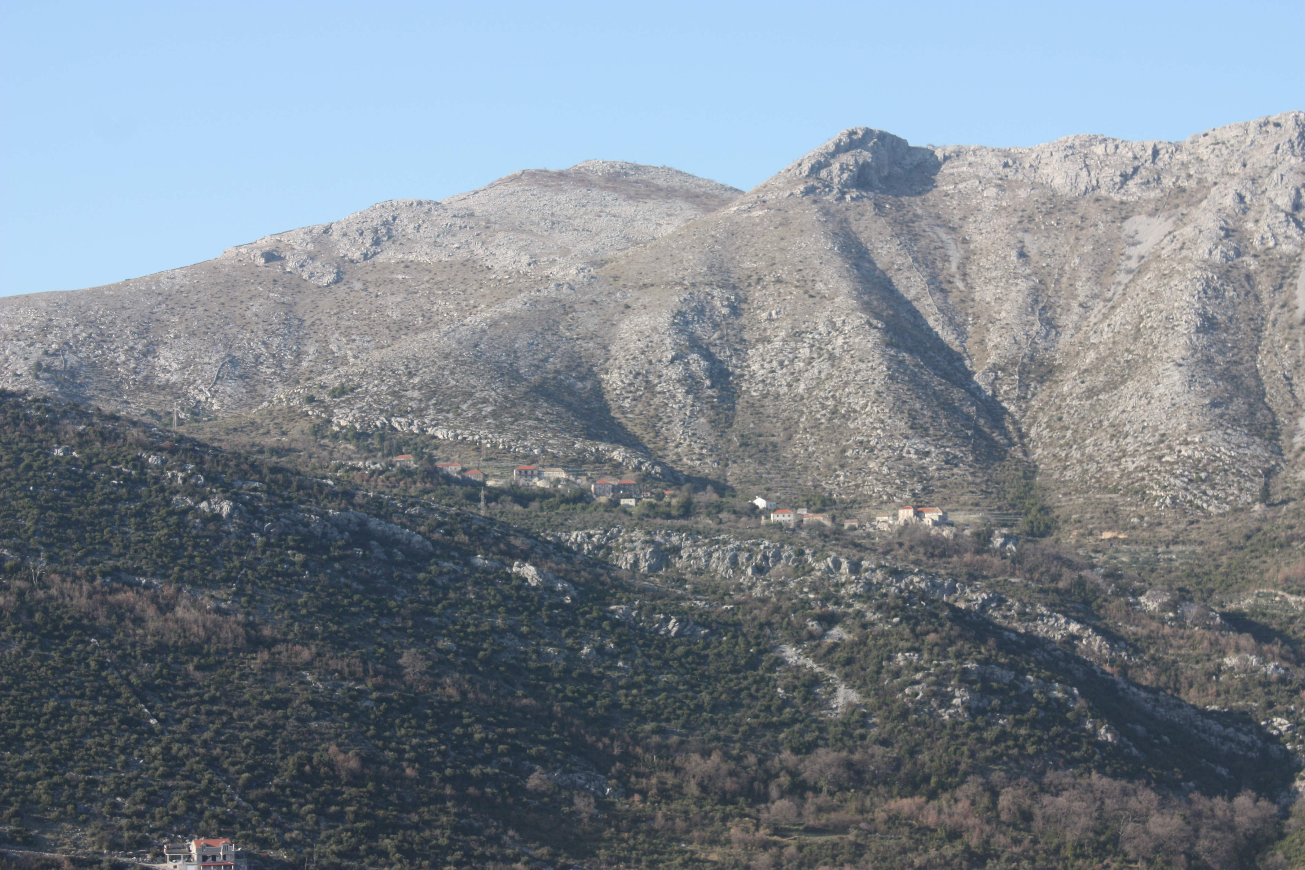 Petrovo village near Dubrovnik Petrovo selo kod Dubrovnika